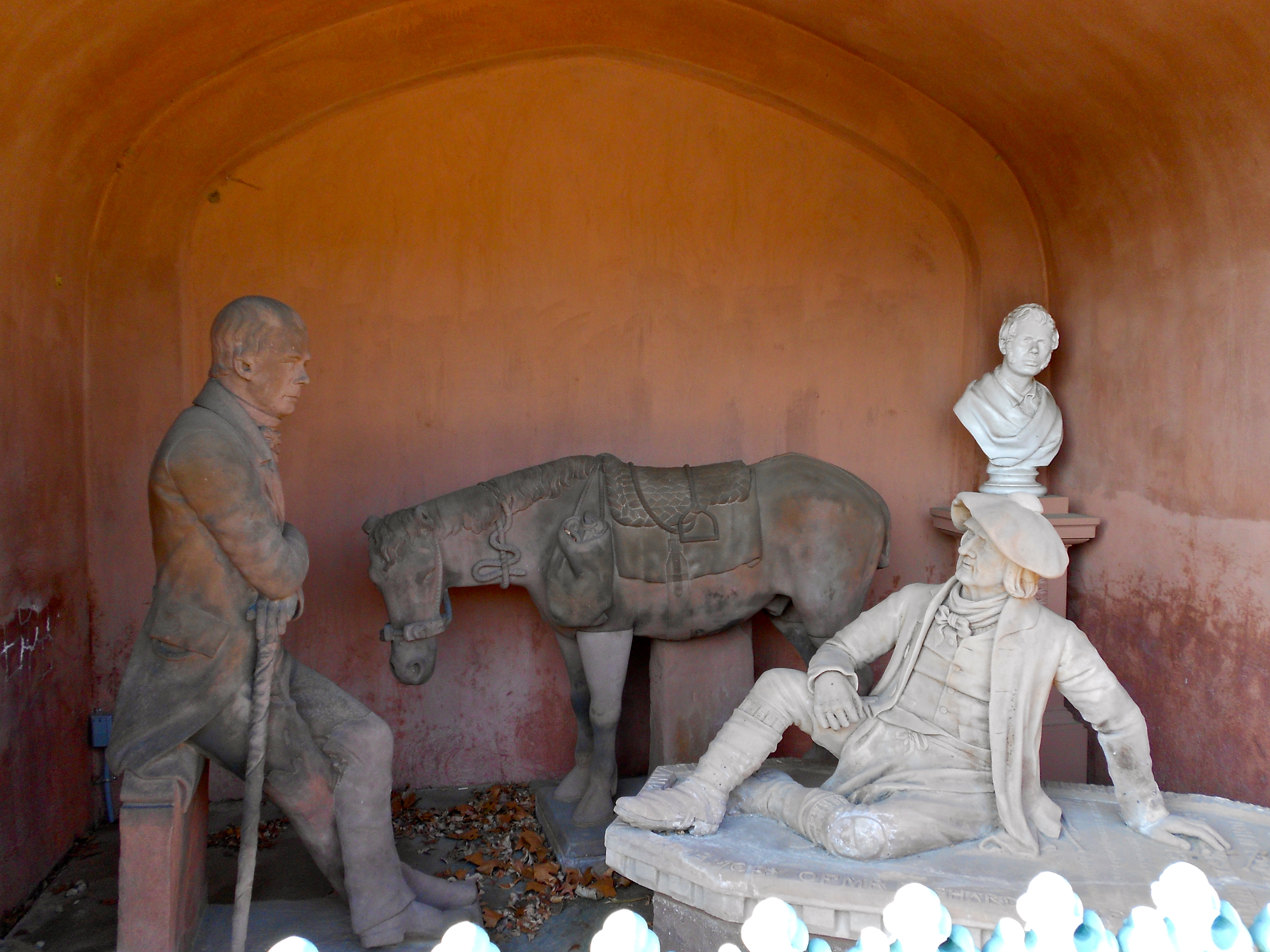 Sculptural scene of "Old Mortality and His Pony" (from Sir Walter Scott) at Laurel Hill Cemetery, Philadelphia. Statues c. 1836, conserved c. 2010. Figures from a Sir Walter Scott story. Scott and the pony in brownstone, "Old Mortality" (seated) in Limestone, bust of the sculptor, James Thom, in plaster. SIRIS reference IAS 88320016